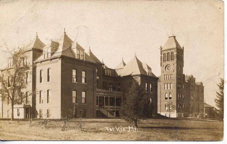 Photograph of college campus of Tarkio College in Tarkio Missouri circa 1910